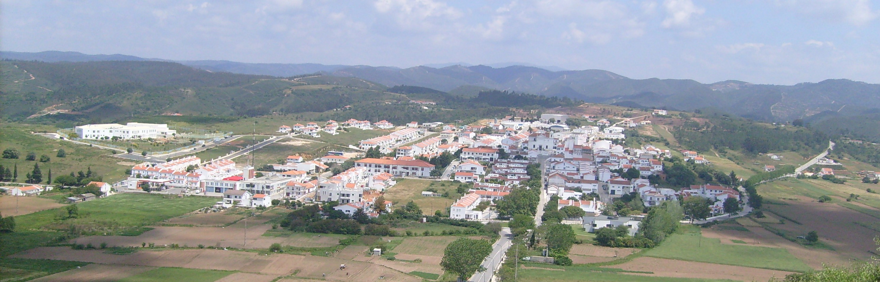 View of Aljezur, Portugal.